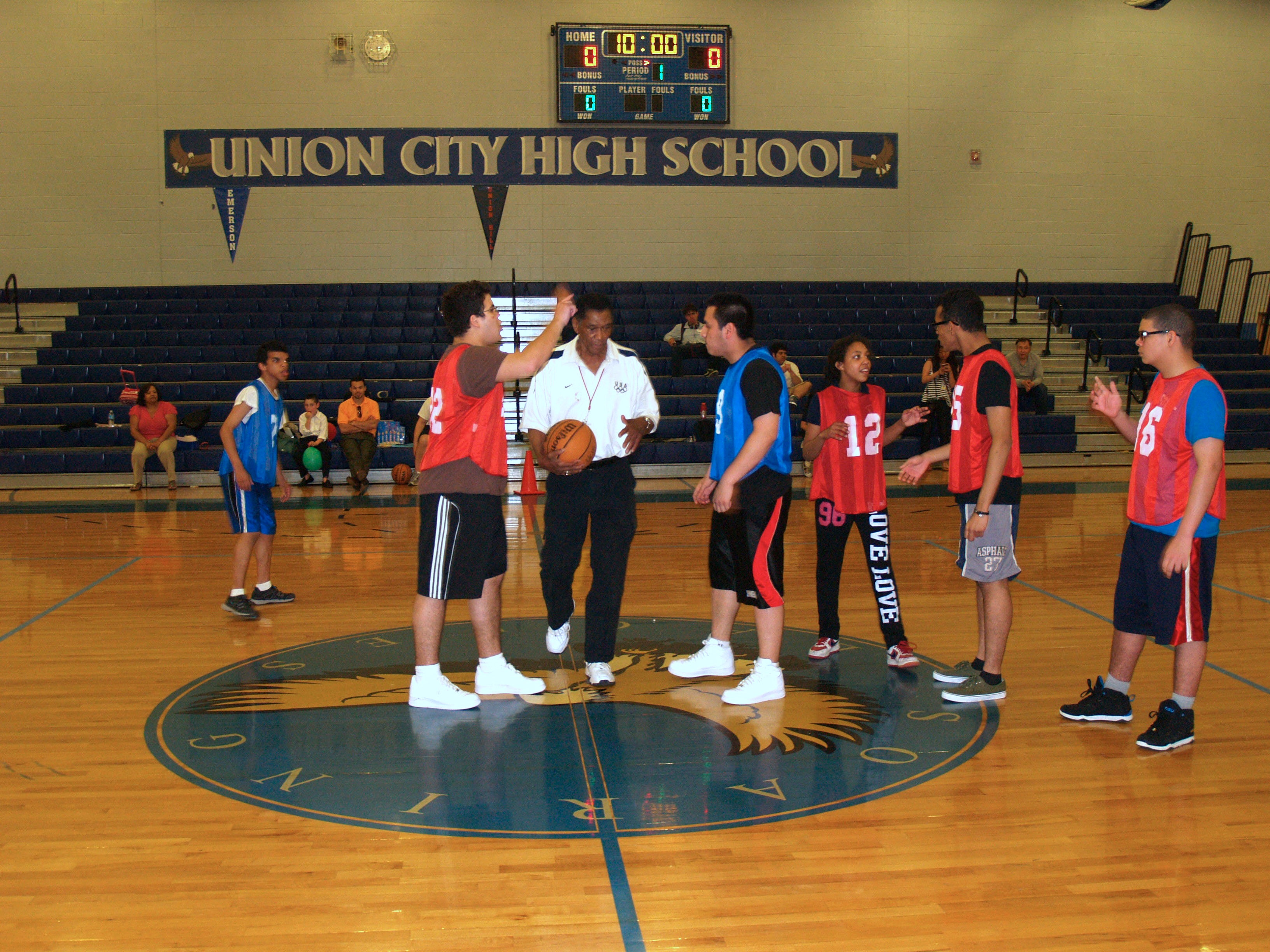 Former Olympic gold medalist Otis Davis (in the white shirt) acting as referee at the May 30, 2013 Sports Challenge IV: Family Fun Fest, an athletic event for special needs children and their families, at Union City High School in Union City New Jersey, where Davis works as a coach, mentor and verification officer. The event was hosted by the Tri-States Olympic Alumni Association, of which Davis is a co-founder and former President. This photo was created by Luigi Novi. It is not in the public domain, and use of this file outside of the licensing terms is a copyright violation.